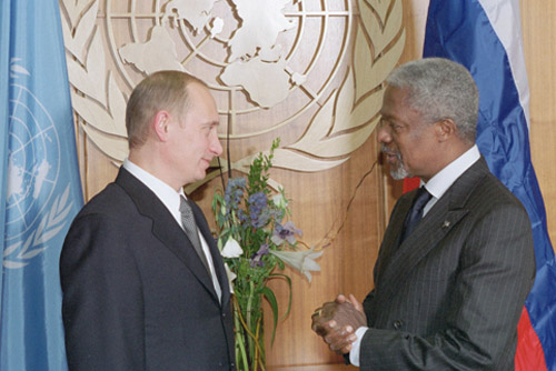 UNITED NATIONS HEADQUARTERS, NEW YORK CITY. President Vladimir Putin with UN Secretary General Kofi Annan.